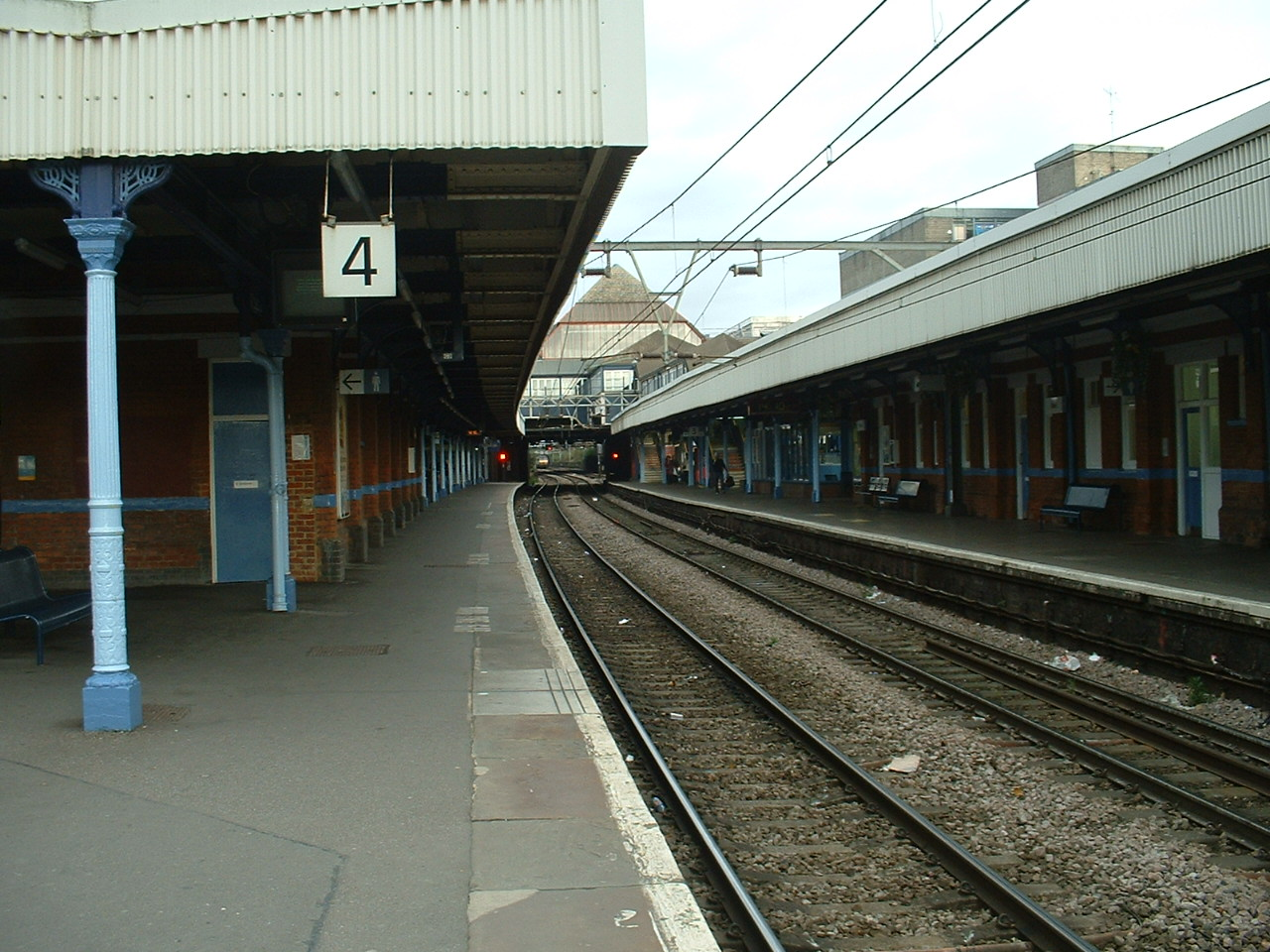 Ilford railway station platforms 3 and 4 (slow) looking east. Sunil060902, 10th November 2007.